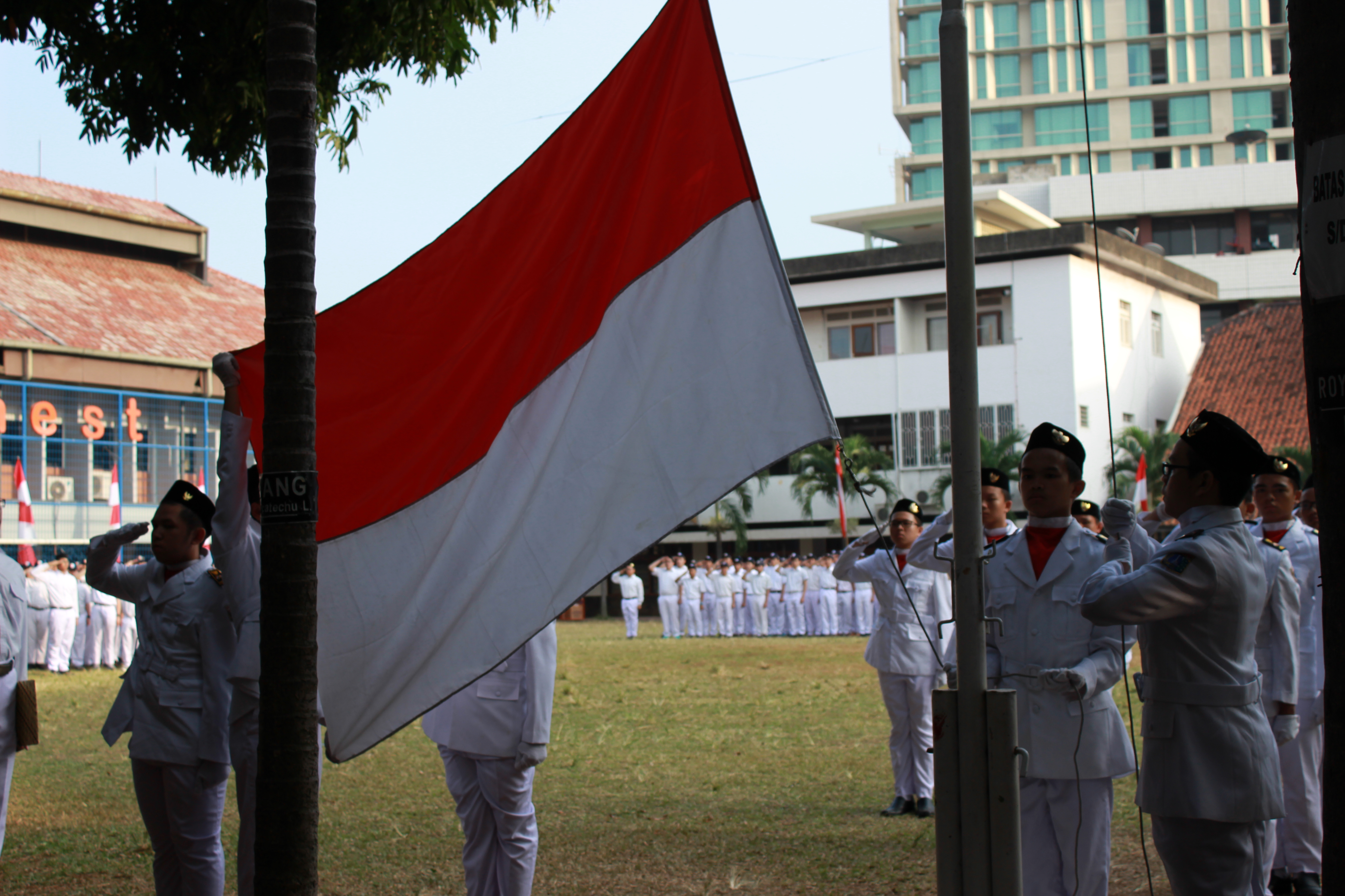 Some Paskibra (Flag Hoisting Troops) preparing the flag of Indonesia before hoisting it. This was done on the 2015 Indonesian Independence Day ceremony.